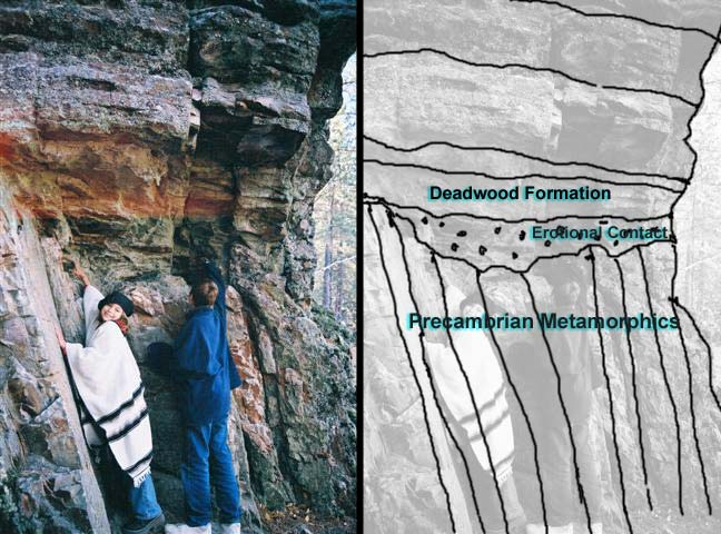 Black Hills angular unconformity. The children have their hands placed so that they are crossing a time span of over 1 billion years.